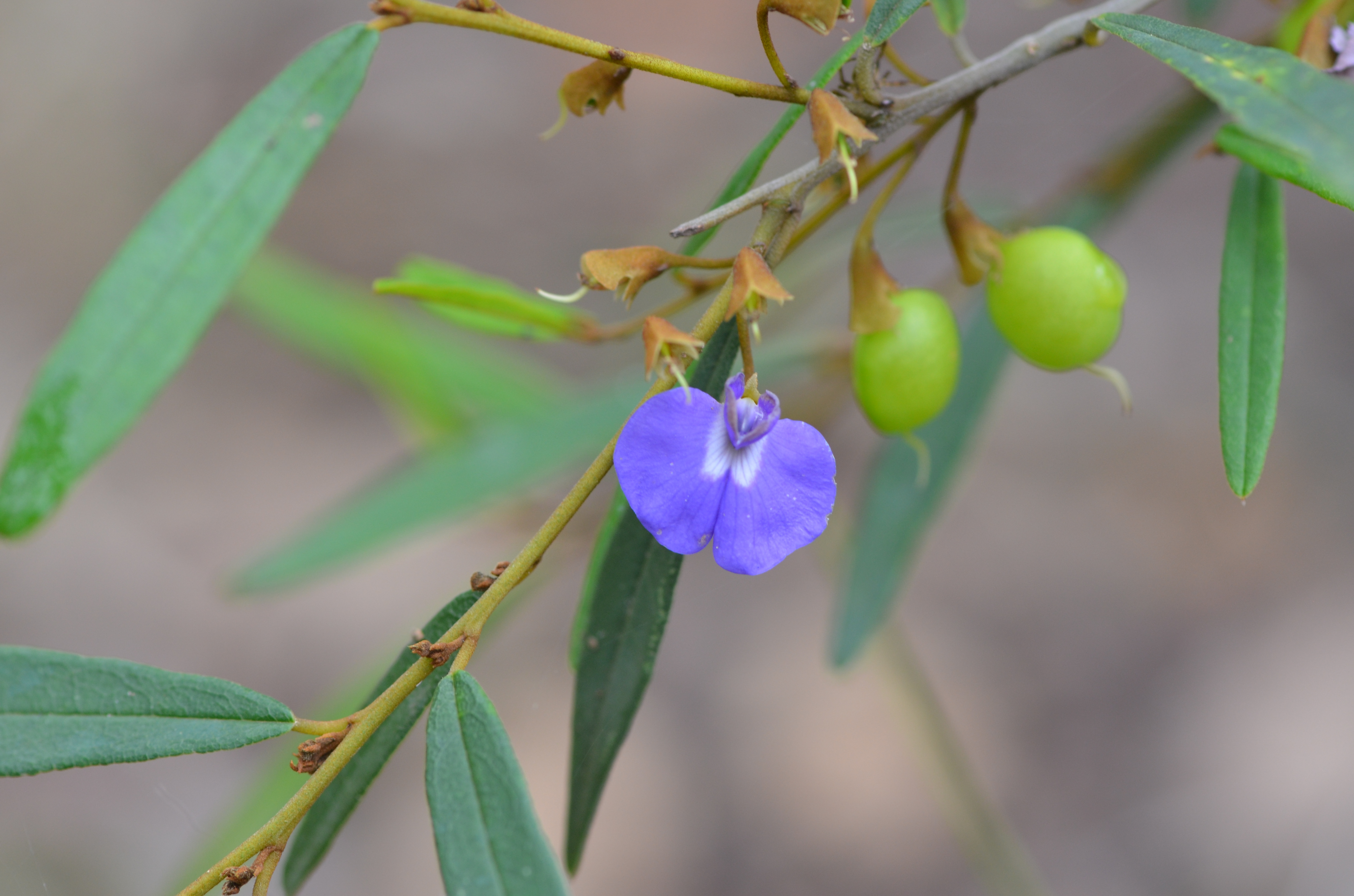 Hovea elliptica, Margaret River, WA